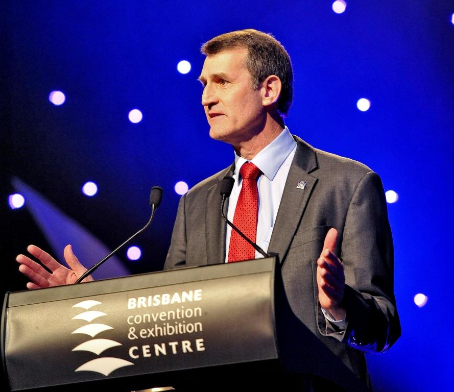 2011 Asia Pacific Cities Summit